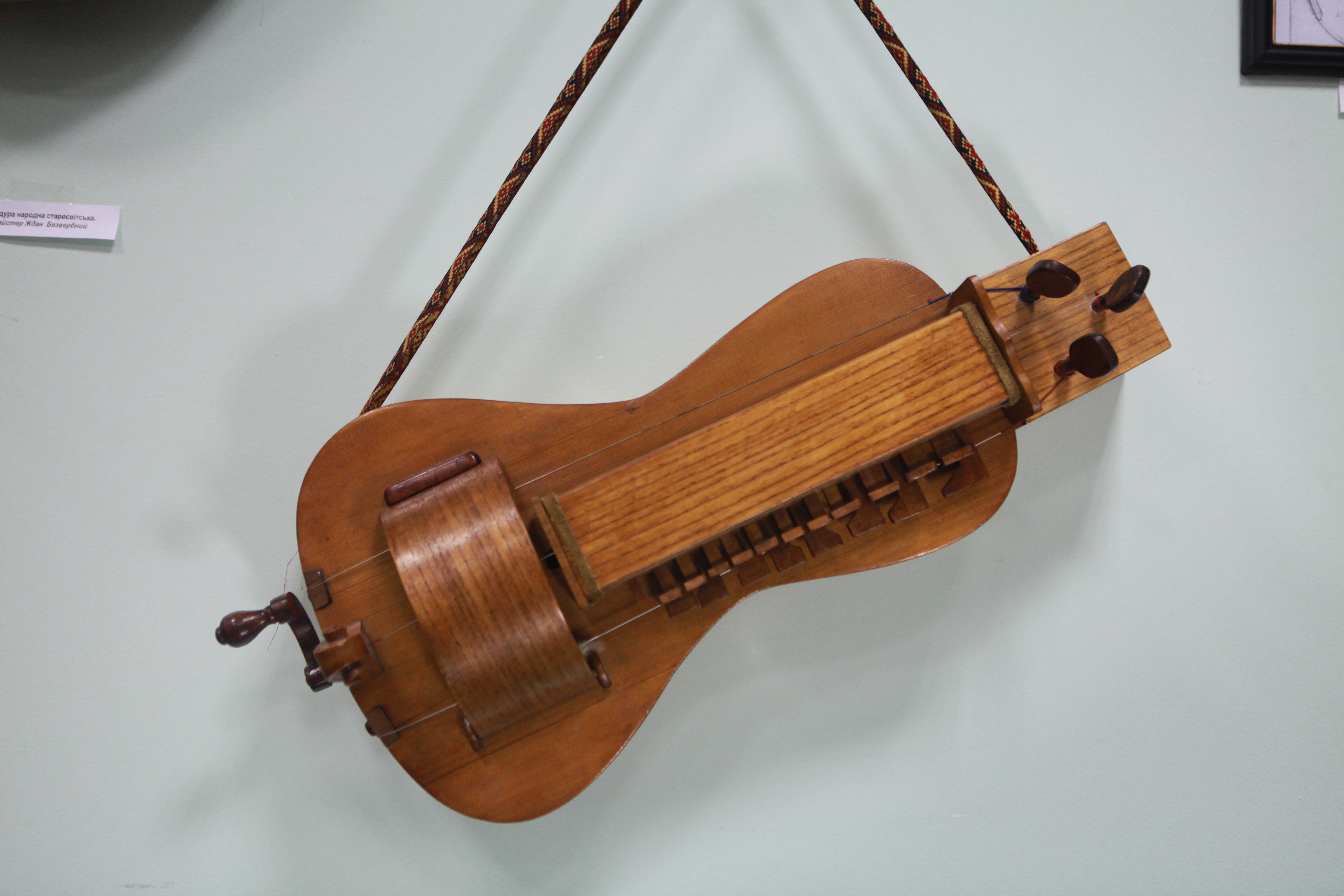 Hurdy-Gurdy bu Olexander Kit